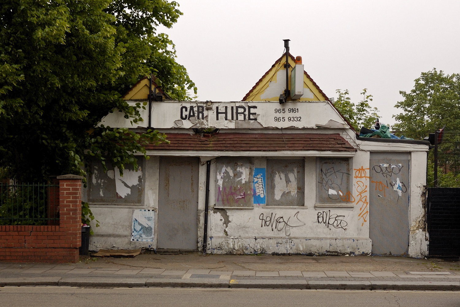 This Is Harlesden Midland Railway Station goods office (the station building and ticket office was to the right). It is on the Dudding Hill Line. The station closed in 1902, but the goods office remained in use until the 1960s, and has been used for other purposes, including a mini-cab office, since then. It largely burnt down in early 2010, and the remains are expected to be demolished. Some platform remains still exist below.